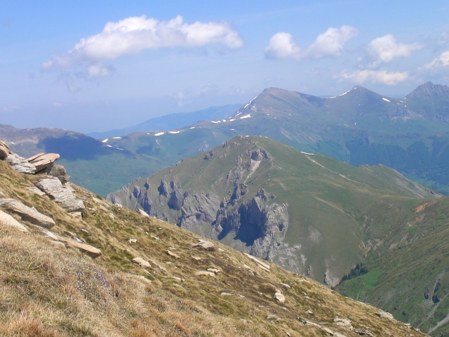 Views of Shar Mountain, Macedonia, 2007.